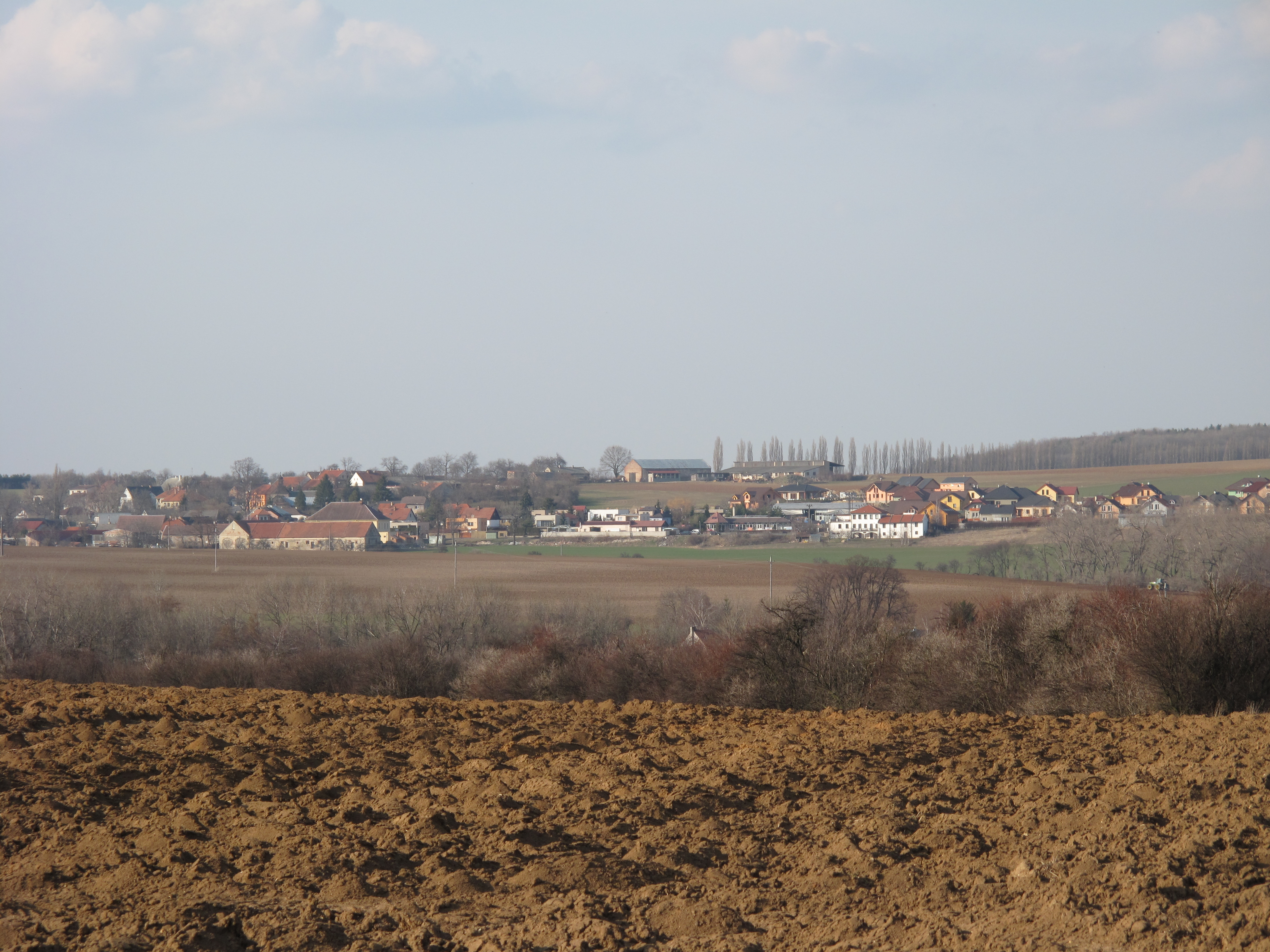 The view at Přítoky village (Miskovice municipality) from the fields southern from Bylany village (Miskovice municipality), Kutná Hora District, Czech Republic.